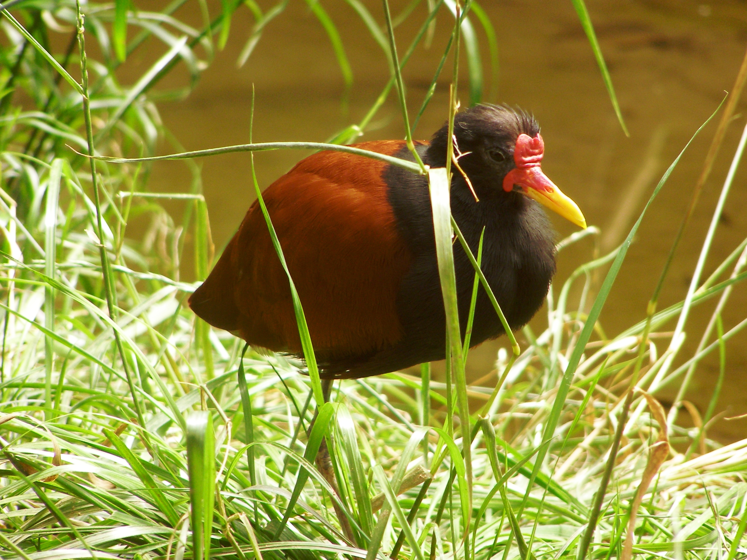 Wattled Jacana (captive)